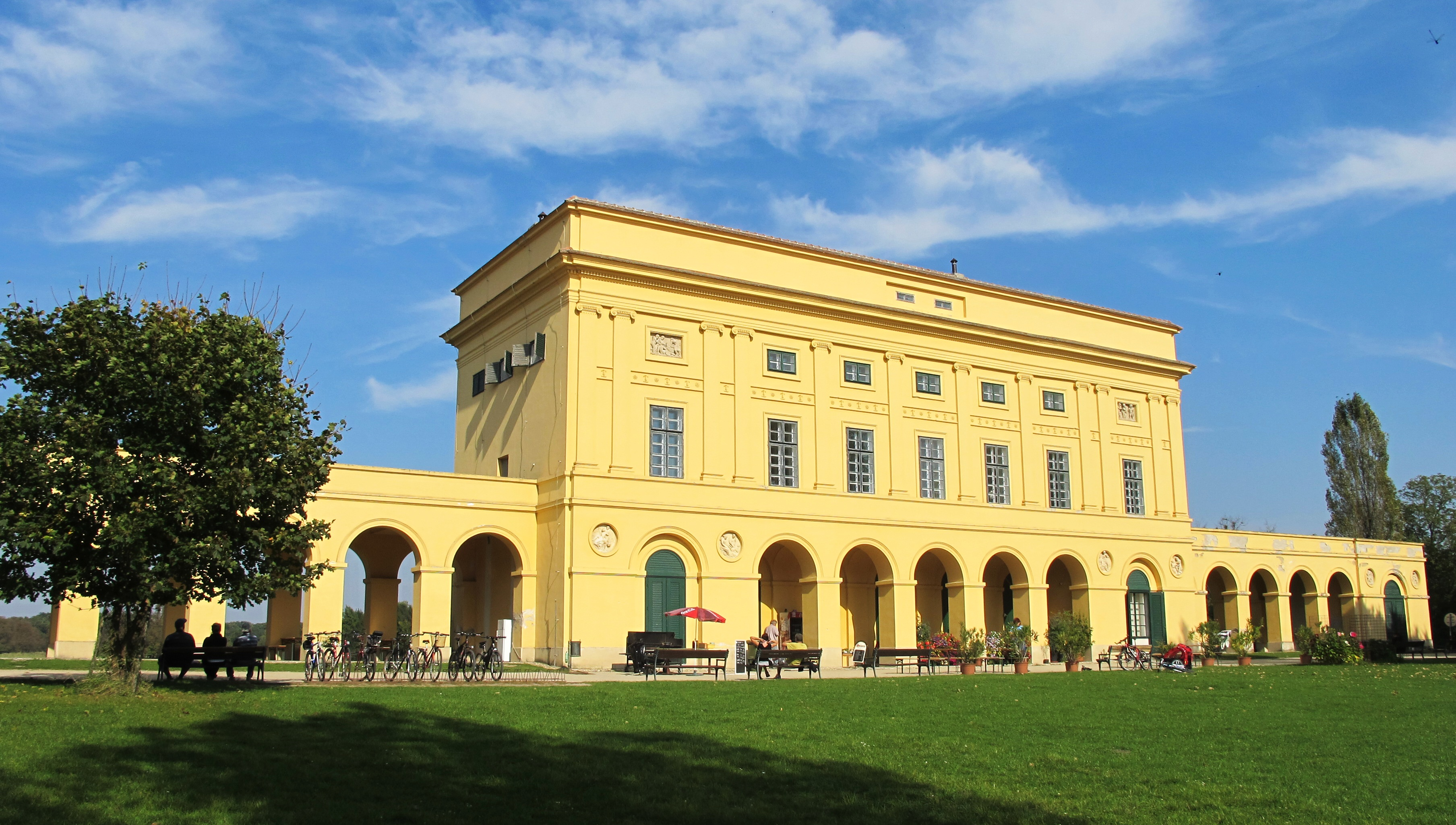 Pohansko chateau is one of the buildings of the Lednice-Valtice Area (in Břeclav District)